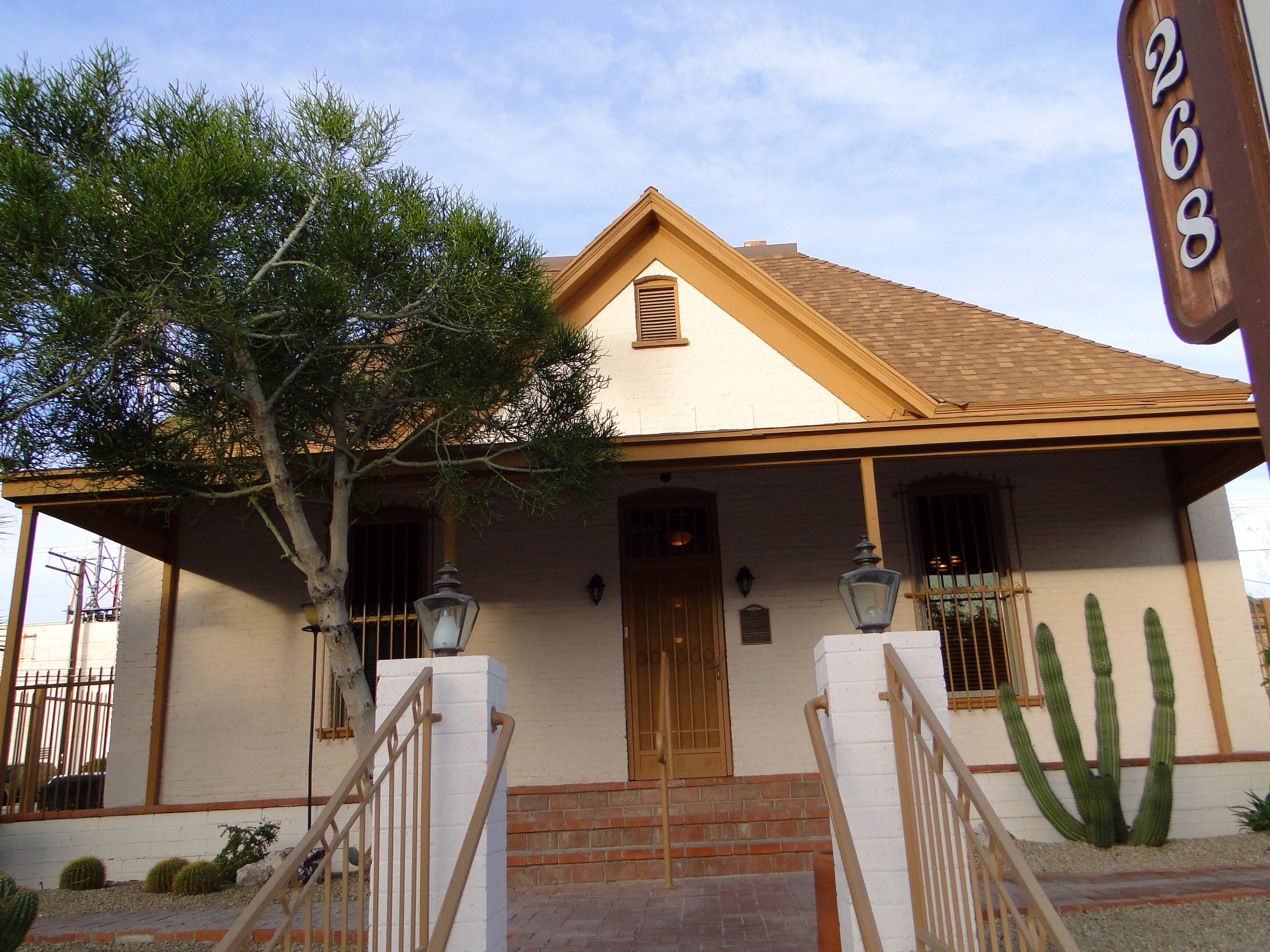 Brown House, 268 S. 1st Avenue, Yuma, Arizona